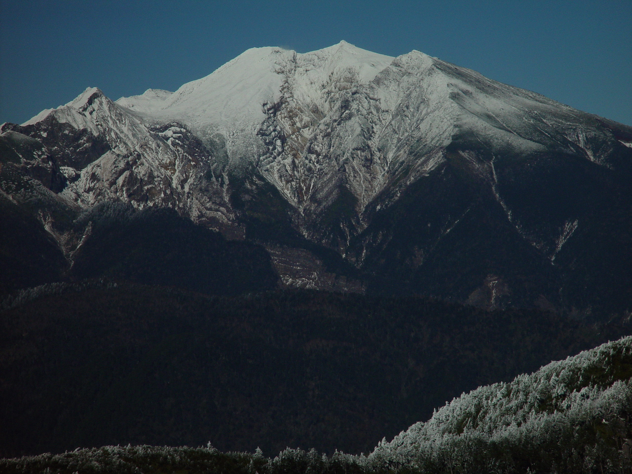 Mount Ontake from Mount Kohide (Kohideyama).